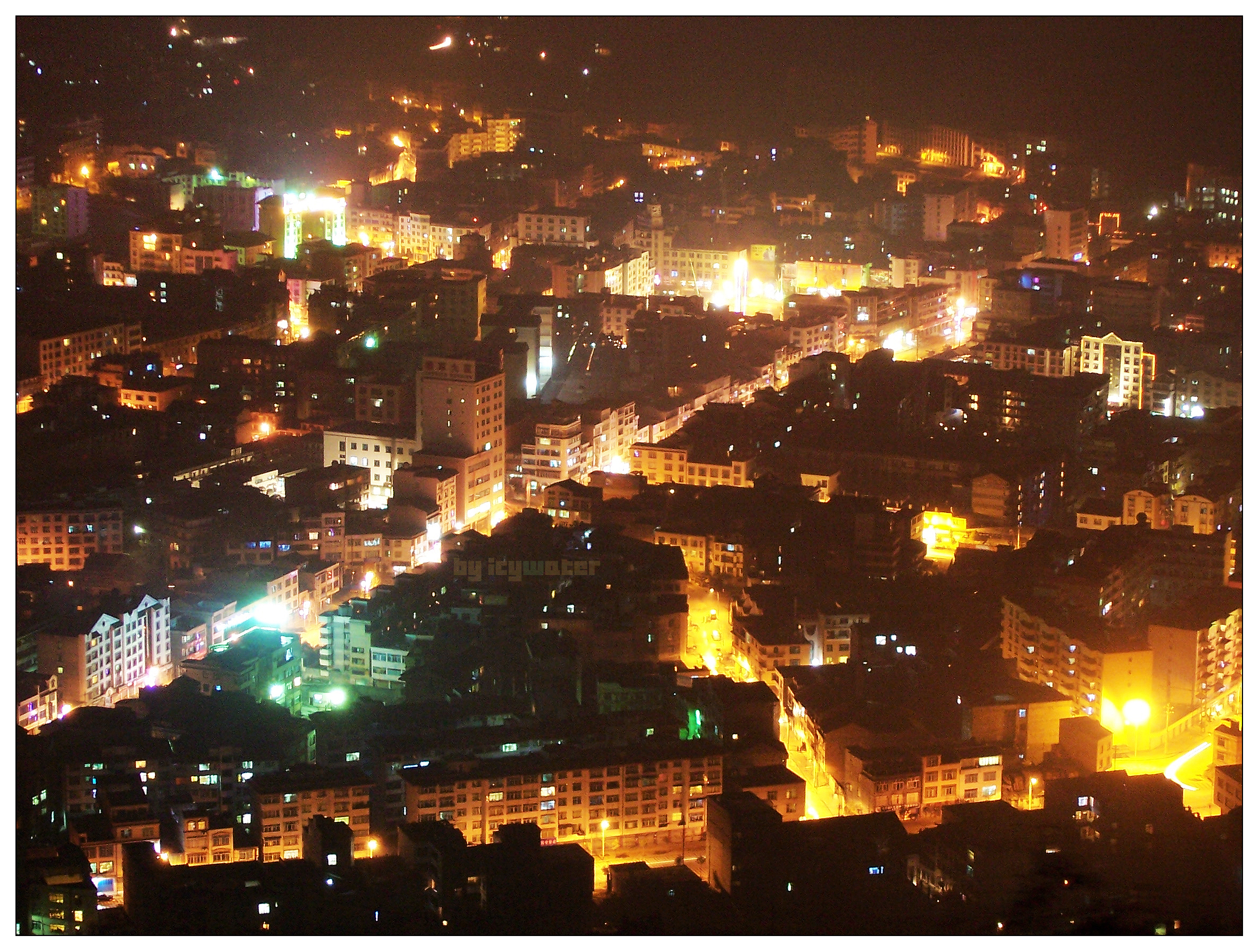 initial"Z".